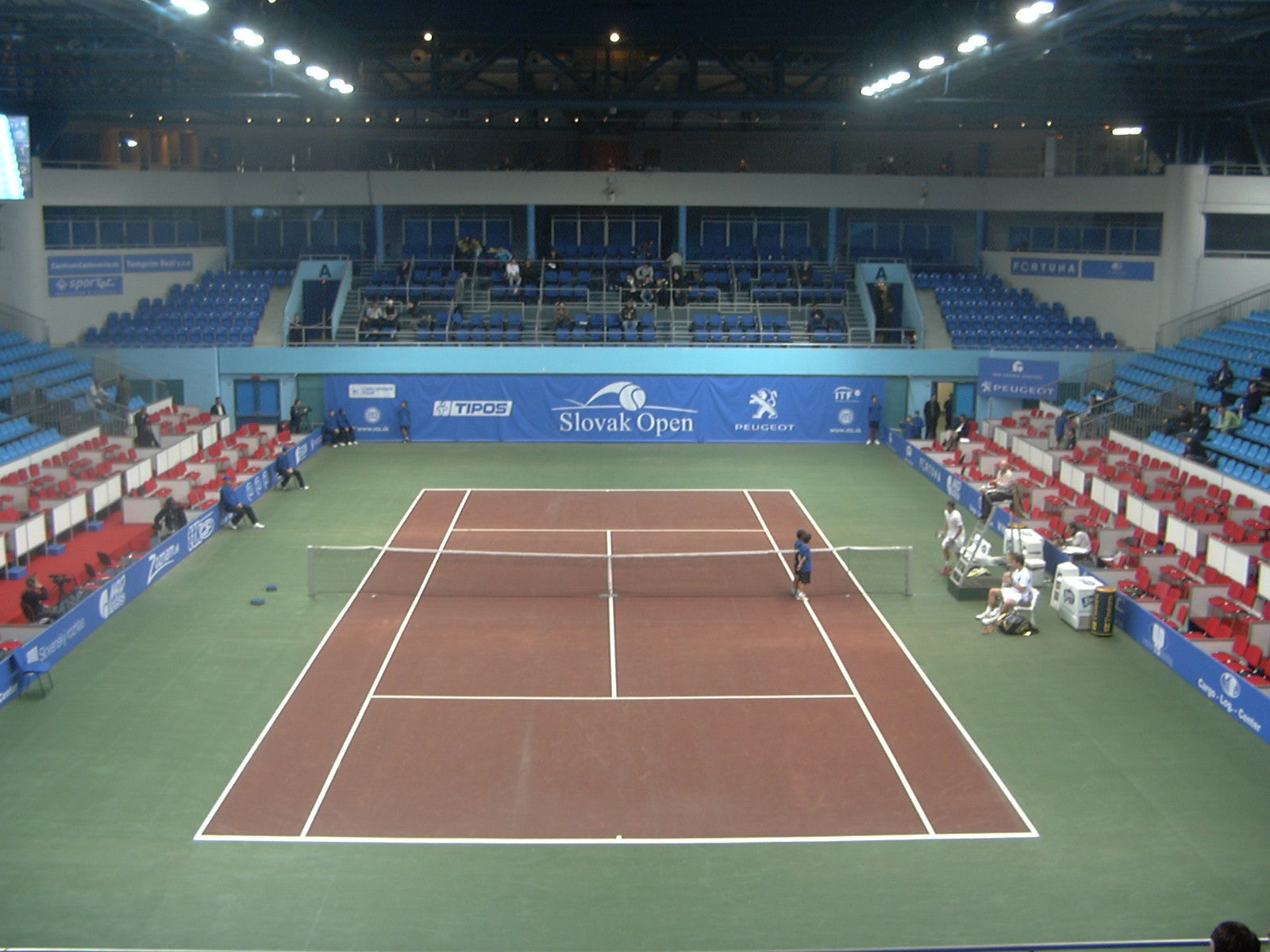 Sibamac ArenaSlovenčina: Sibamac Arena počas Slovak Open 2011 (Na lavičke Jan Hájek a Kenny de Schepper)